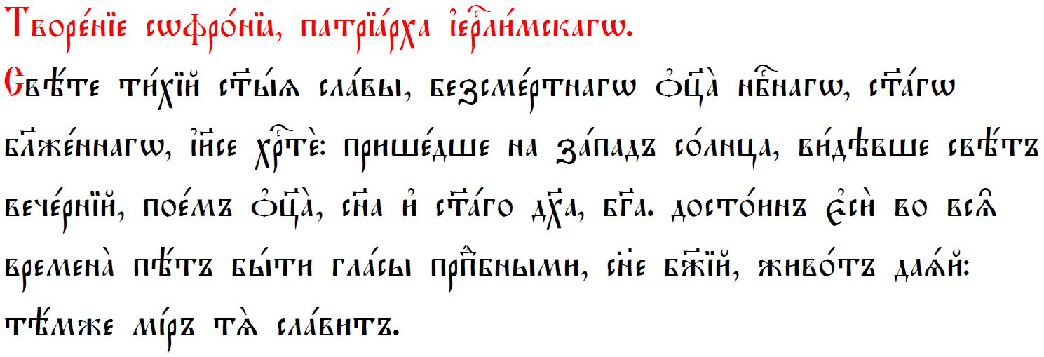 "O joyful light" (wikipedia erticle: Phos_Ilaron) in Church Slavonic